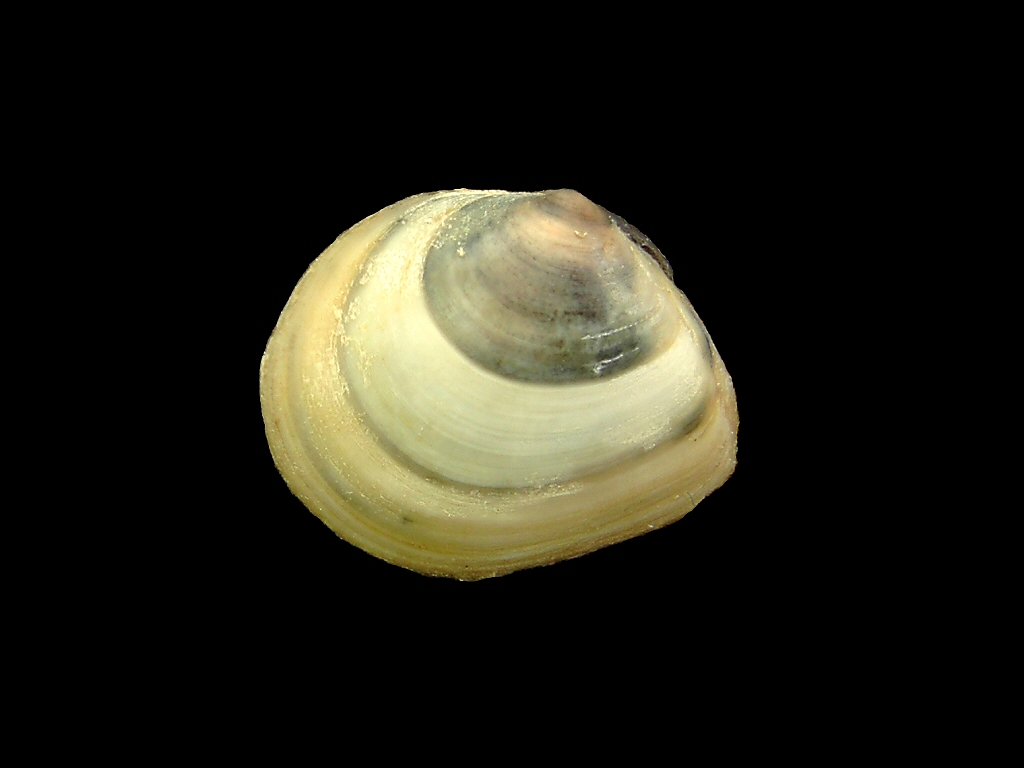 Baltic tellin from the southern North Sea - Belgium.